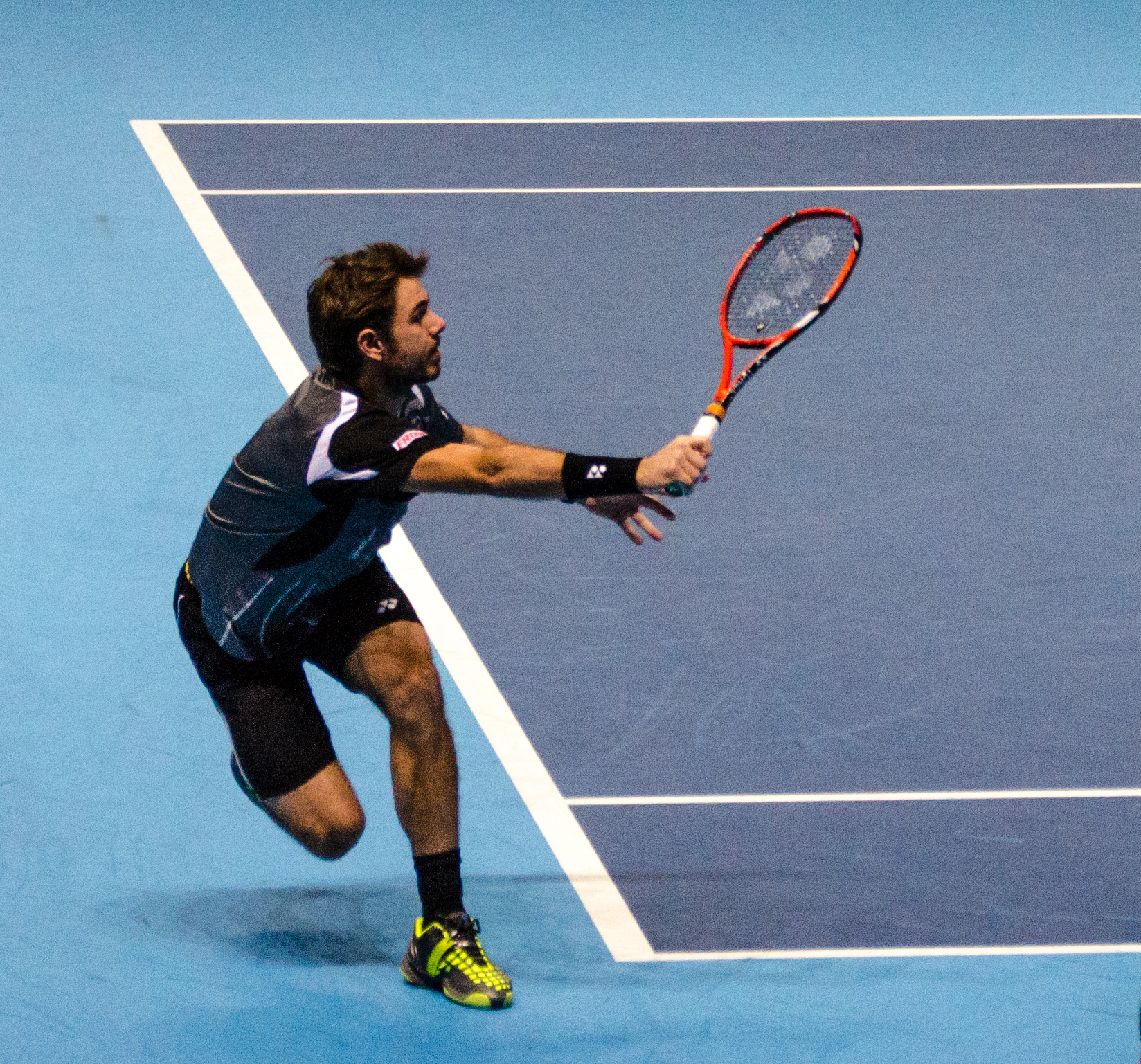 This is a photo of a tennis game at the ATP World Tour Finals.